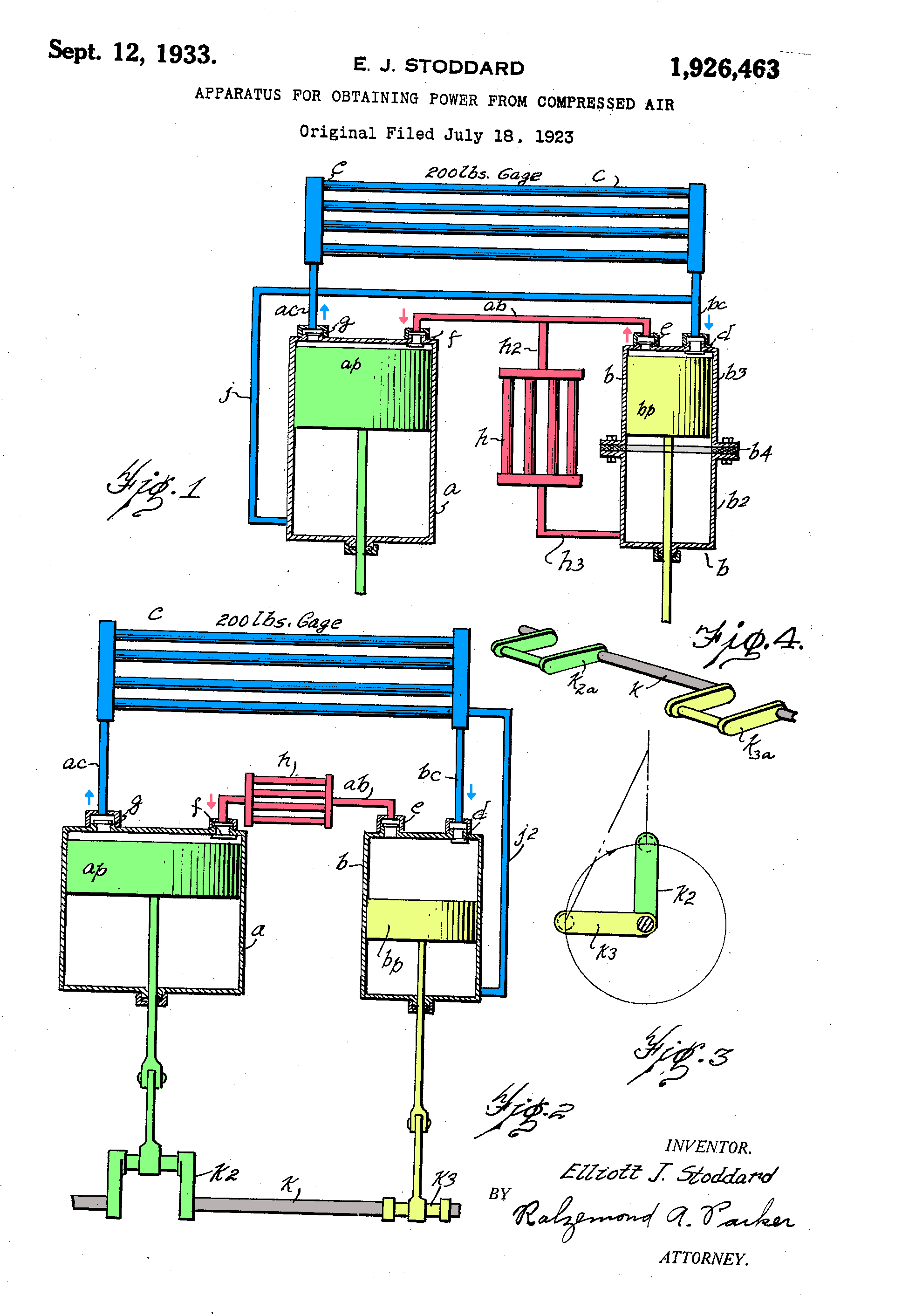 Apparatus for obtaining power from compressed air